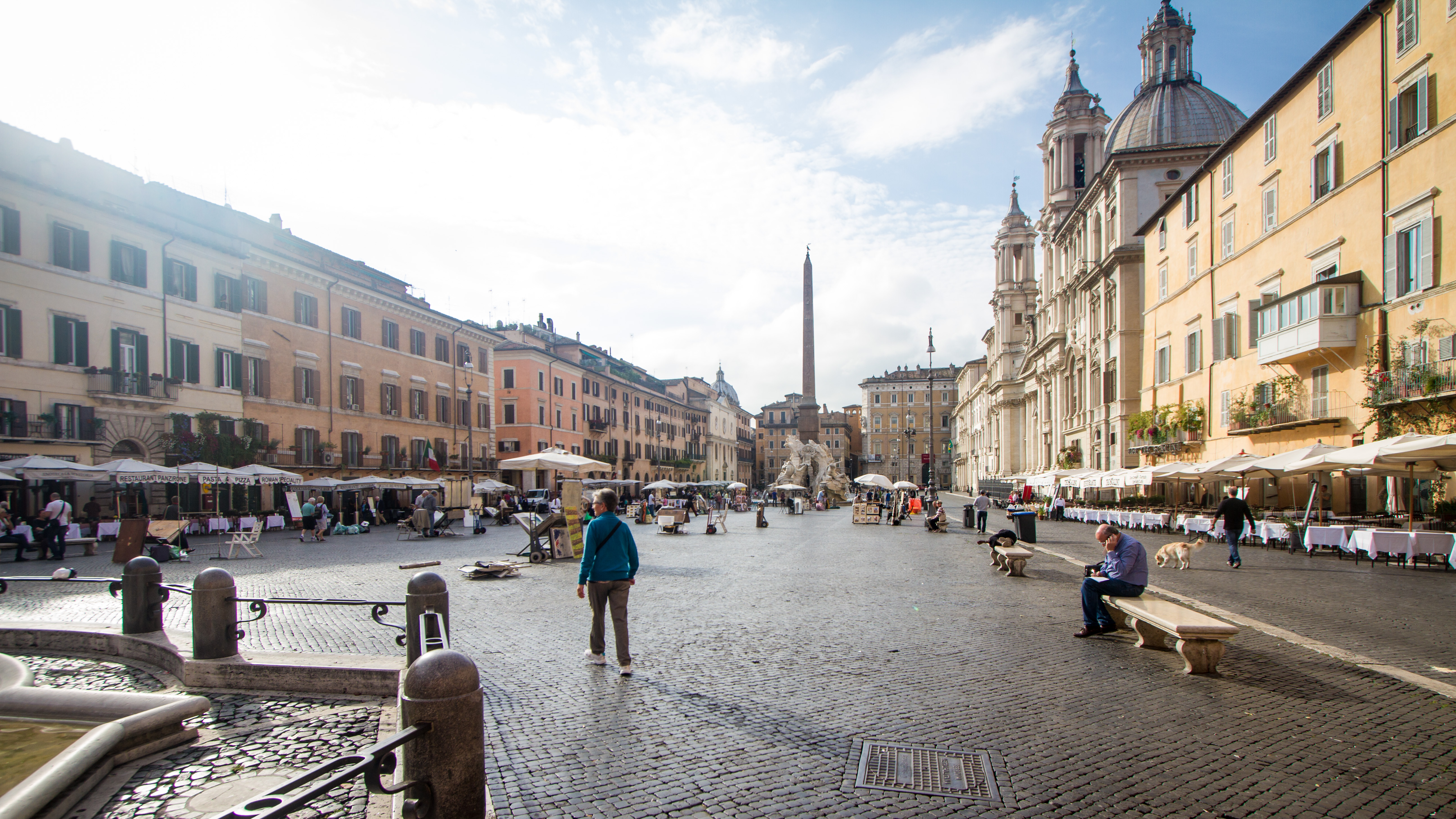 Piazza Navona has two additional fountains: at the southern end is the Fontana del Moro with a basin and four Tritons sculpted by Giacomo della Porta (1575) to which, in 1673, Bernini added a statue of a Moor, or African, wrestling with a dolphin, and at the northern end is the Fountain of Neptune (1574) created by Giacomo della Porta. The statue of Neptune in the northern fountain, the work of Antonio Della Bitta, was added in 1878 to make that fountain more symmetrical with La Fontana del Moro in the south. At the southwest end of the piazza is the ancient 'speaking' statue of Pasquino. Erected in 1501, Romans could leave lampoons or derogatory social commentary attached to the statue. During its history, the piazza has hosted theatrical events and other ephemeral activities. From 1652 until 1866, when the festival was suppressed, it was flooded on every Saturday and Sunday in August in elaborate celebrations of the Pamphilj family. The pavement level was raised in the 19th century and the market was moved again in 1869 to the nearby Campo de' Fiori. A Christmas market is held in the piazza.